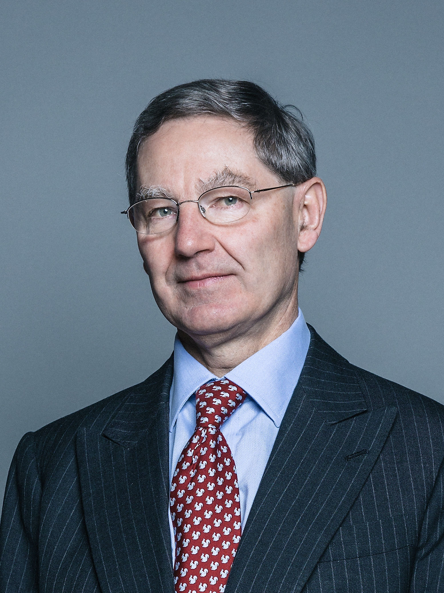 Official portrait of Viscount Younger of Leckie